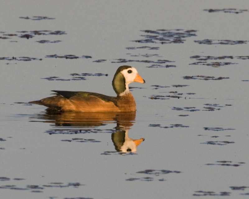 African Pygmy-goose Nettapus auritus Location: Moremi, Botswana Date: 7th. August 2011 Distribution: 690V3269.jpg